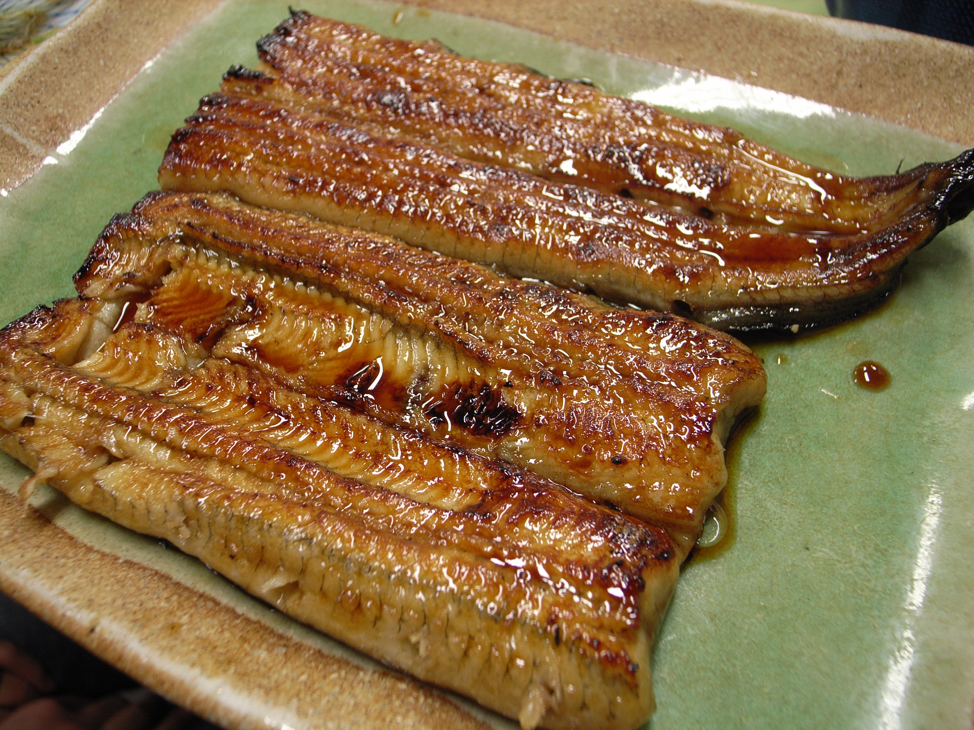 FoodCourt